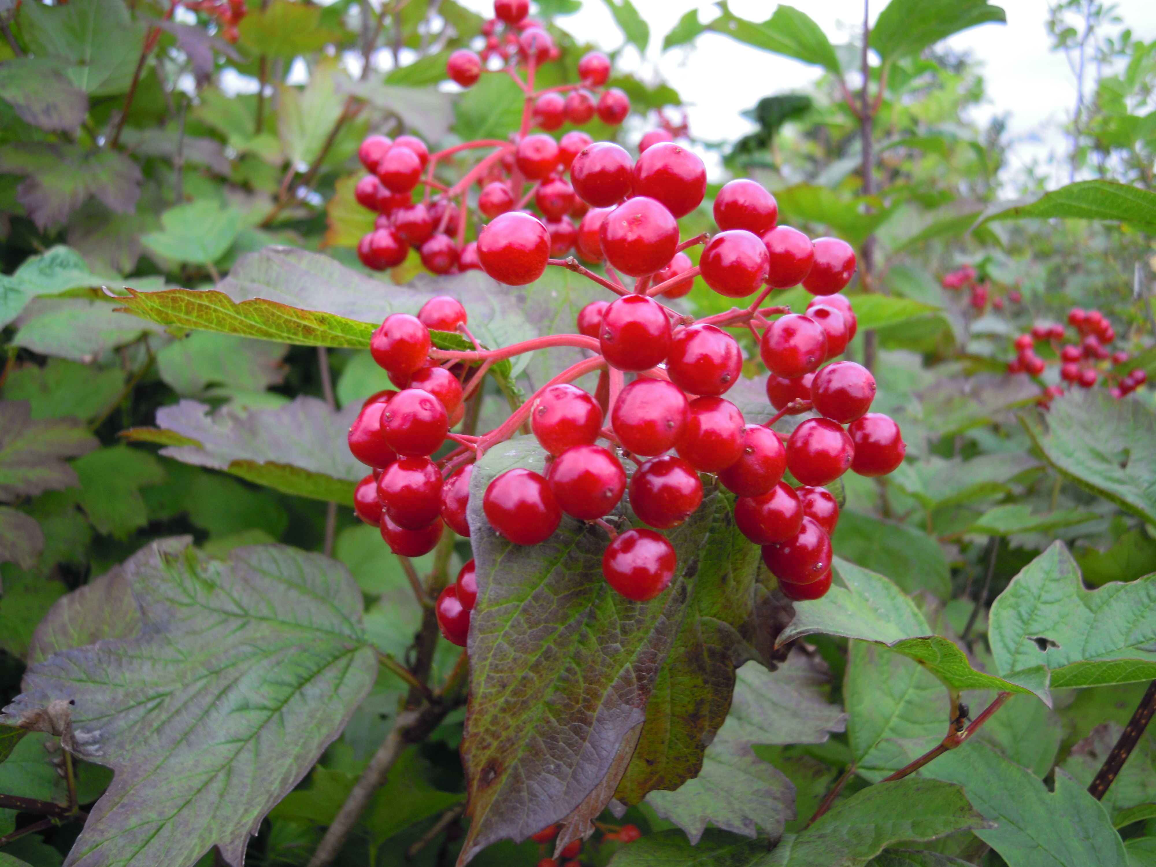 Guelder Rose at Mølen, Norway